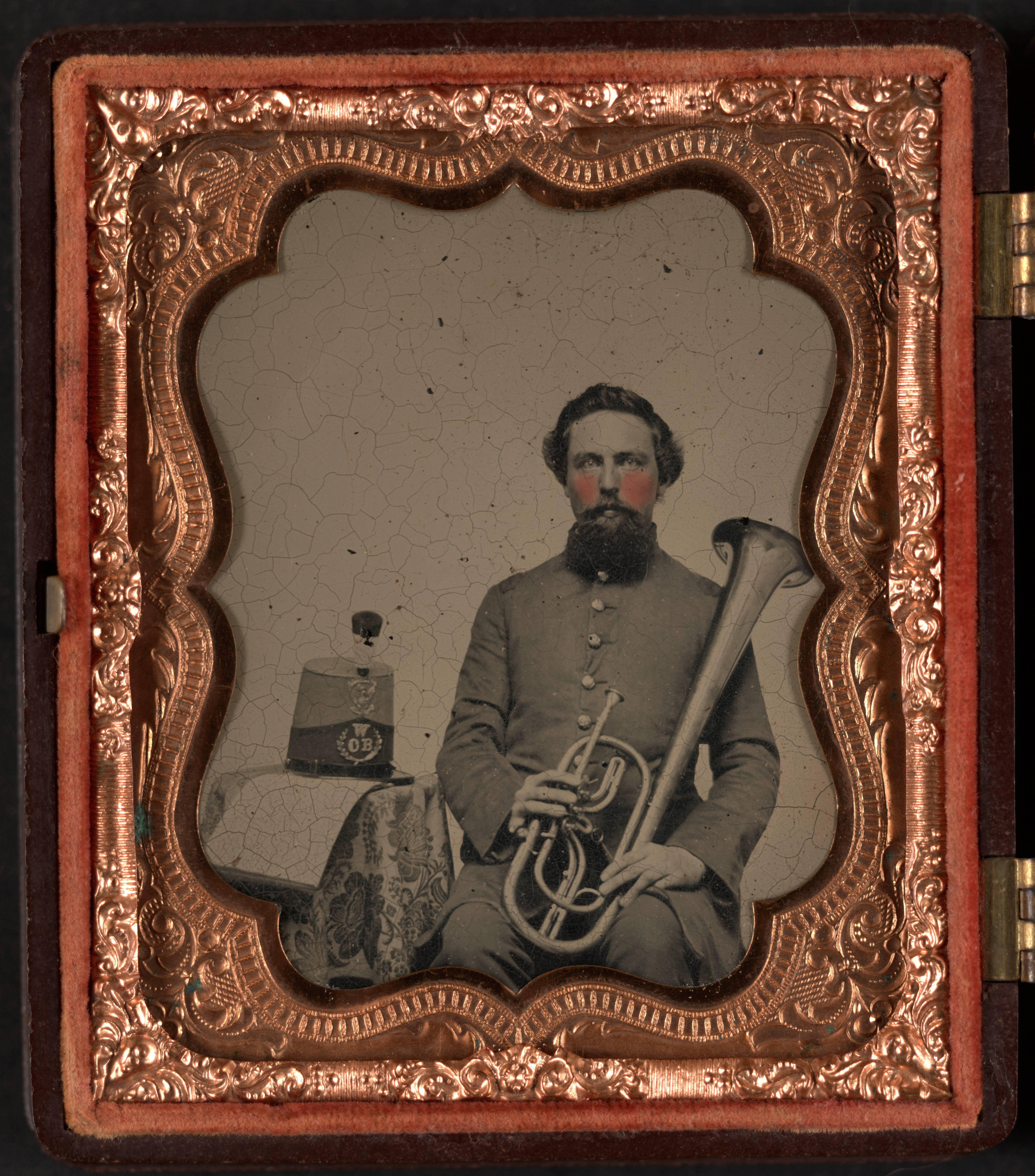 Title: Unidentified soldier of Co. H, 13th Virginia Infantry Regiment in uniform with over the shoulder saxhorn Abstract/medium: 1 photograph : hand-colored ambrotype ; plate 82 x 70 mm (sixth plate format), case 96 x 83 mm.